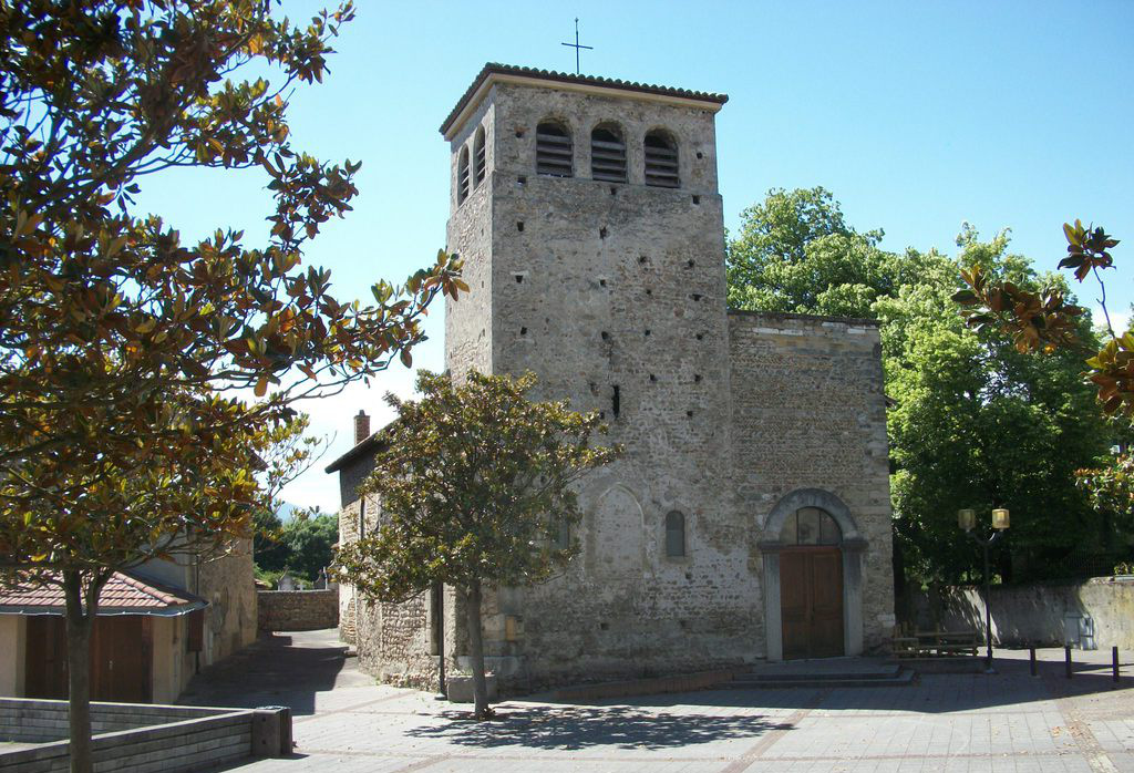 Saint-Blaise Church in Saint-Maurice-l'Exil, Isère, France.